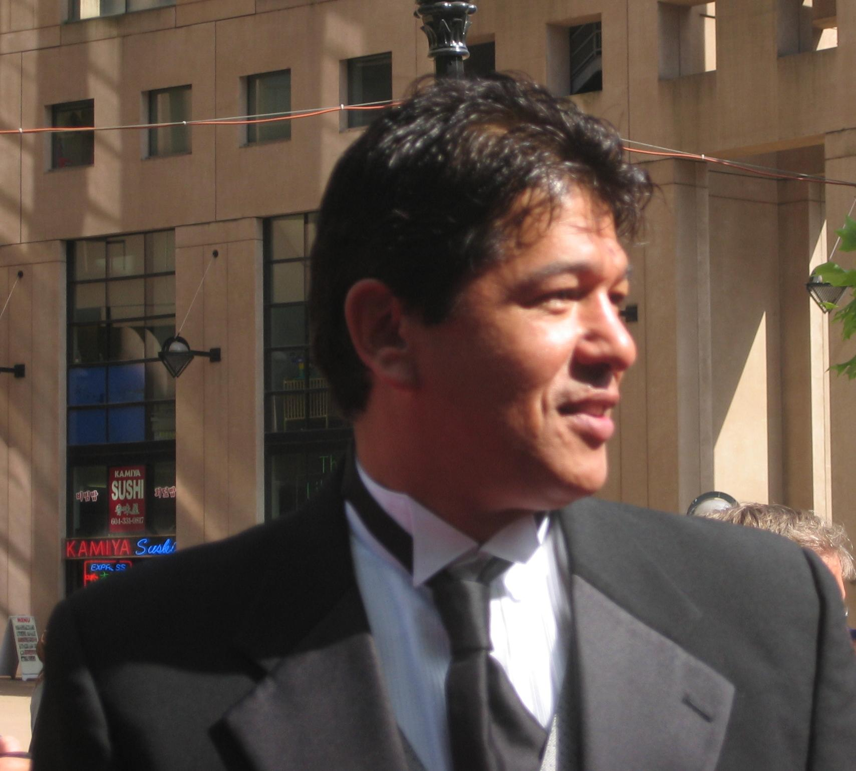 Former NHL hockey player and current coach Ted Nolan.